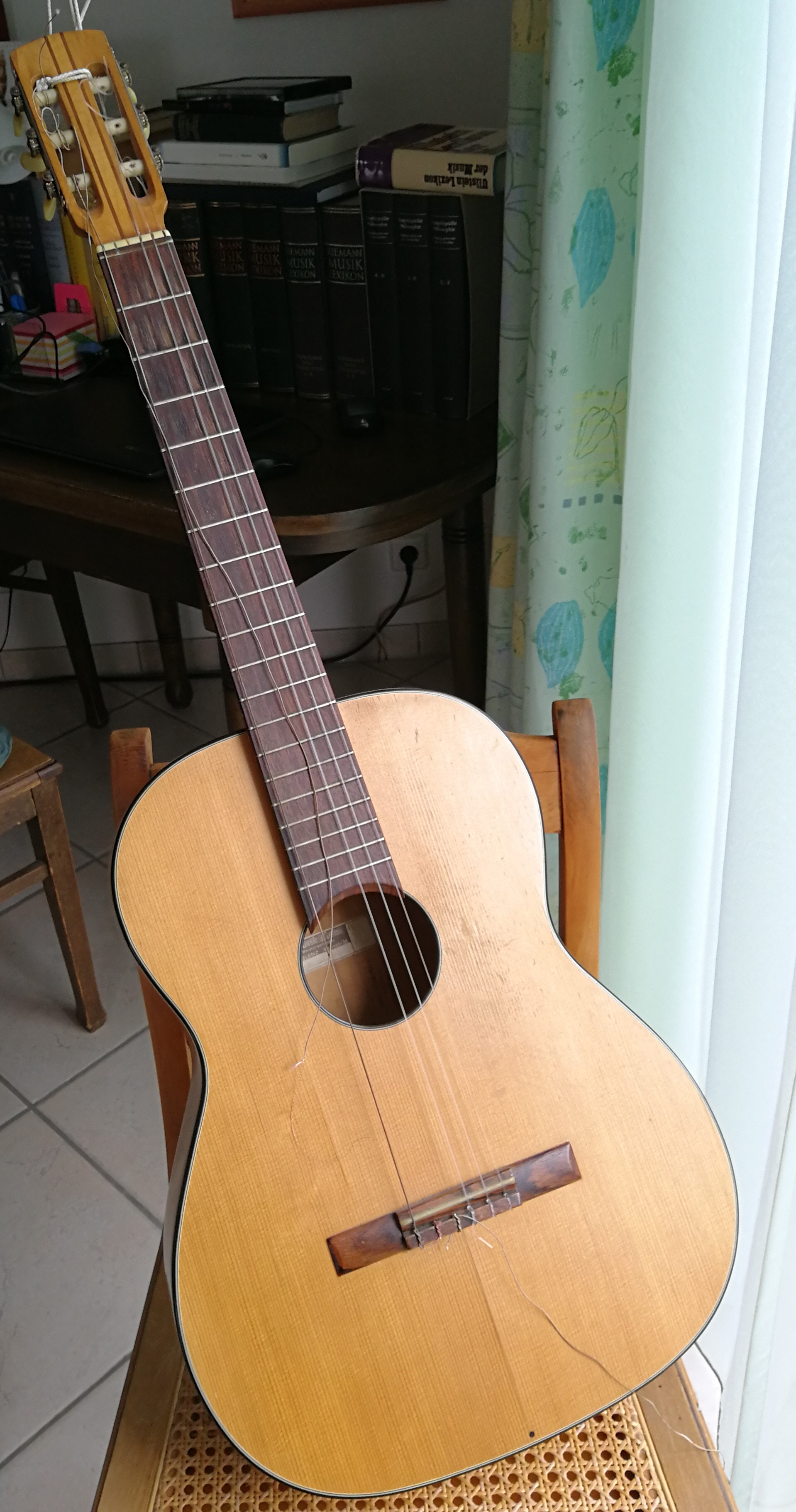 Guitar from Muik-Klein, Koblenz, Germany